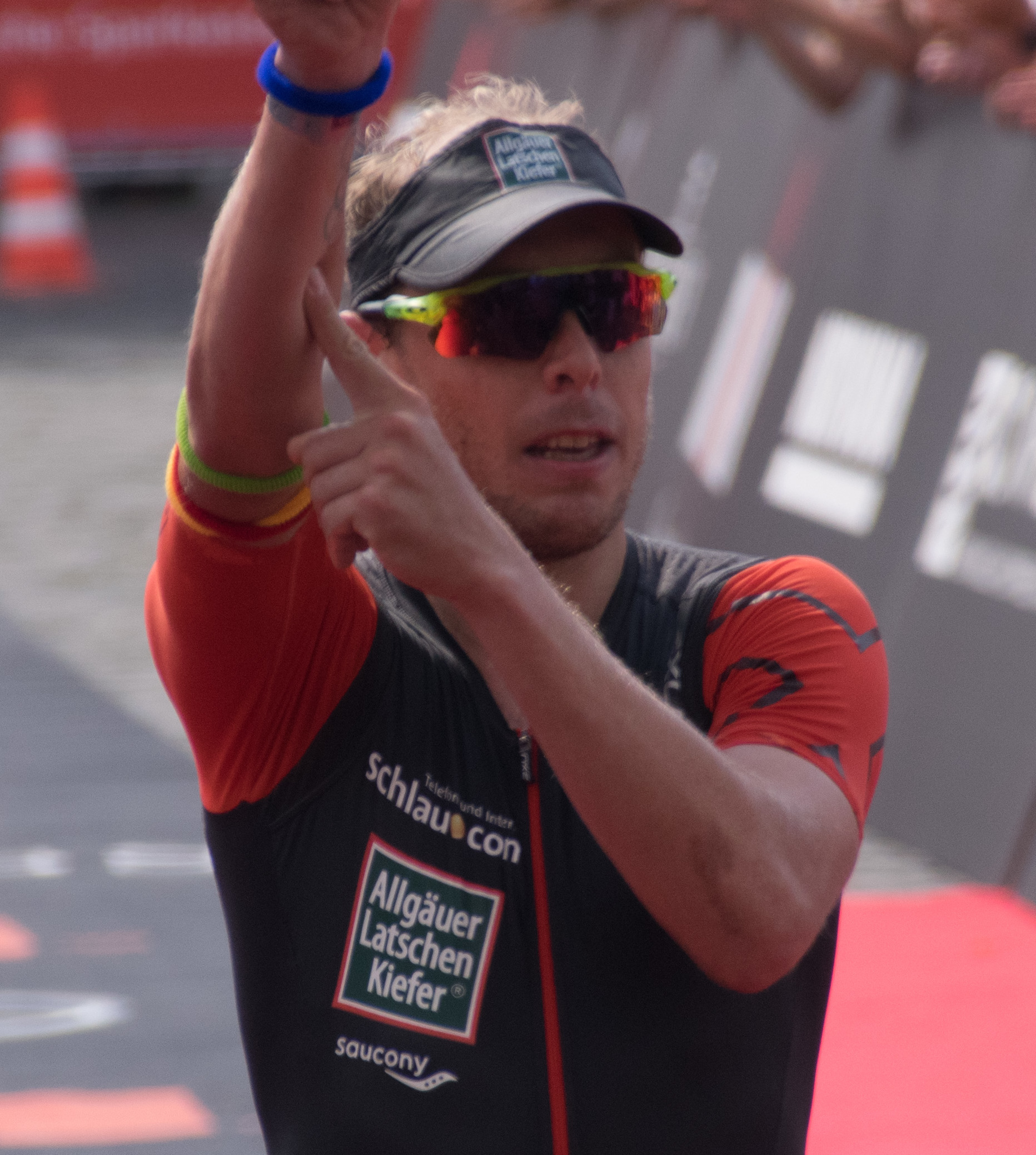 Ironman 70.3 Germany am 14. August 2016 in Wiesbaden